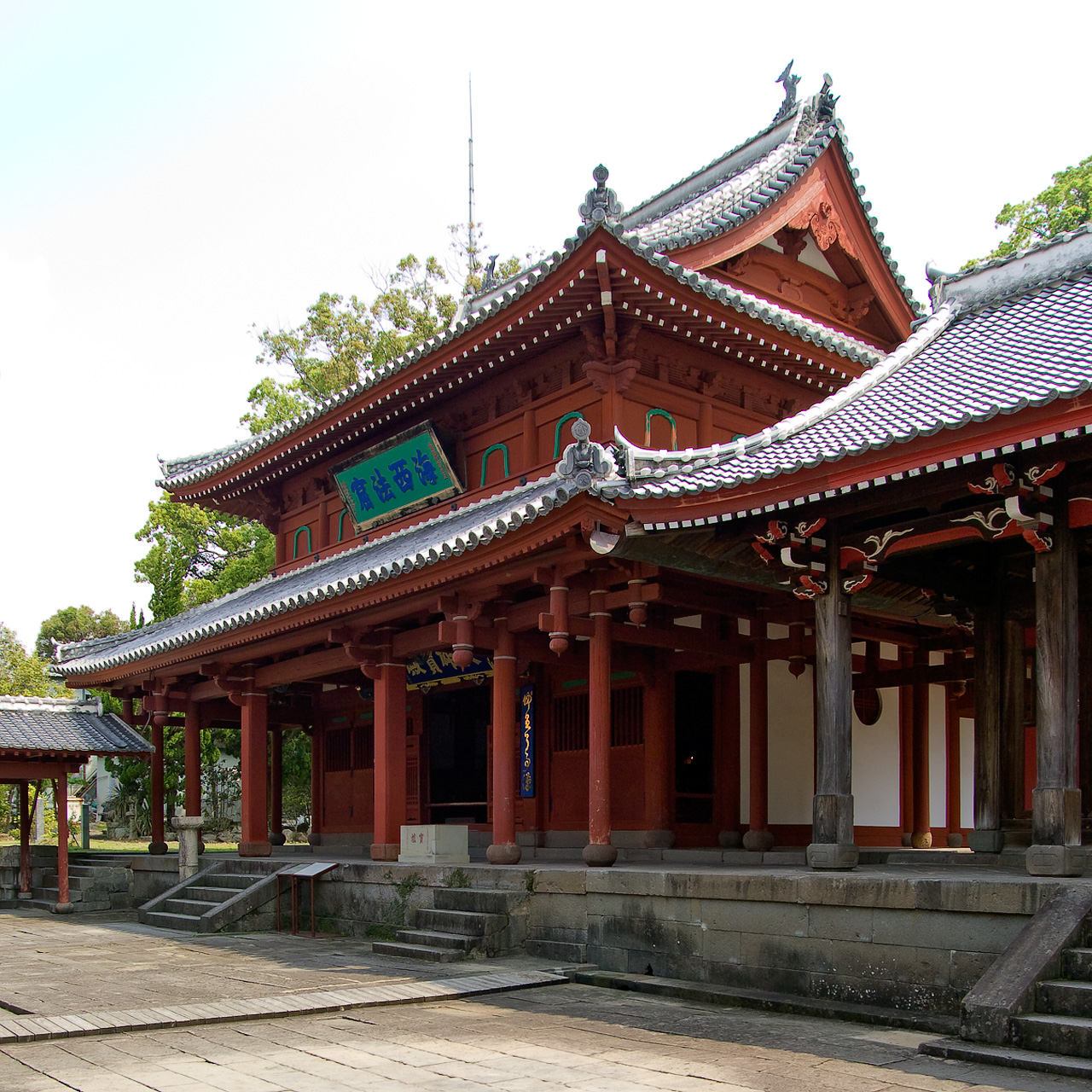 Great Leader's Treasure Hall, Daiyūhōden, at Sōfuku-ji, Nagasaki, Japan, National Treasure 長崎市にある崇福寺の大雄宝殿（国宝）